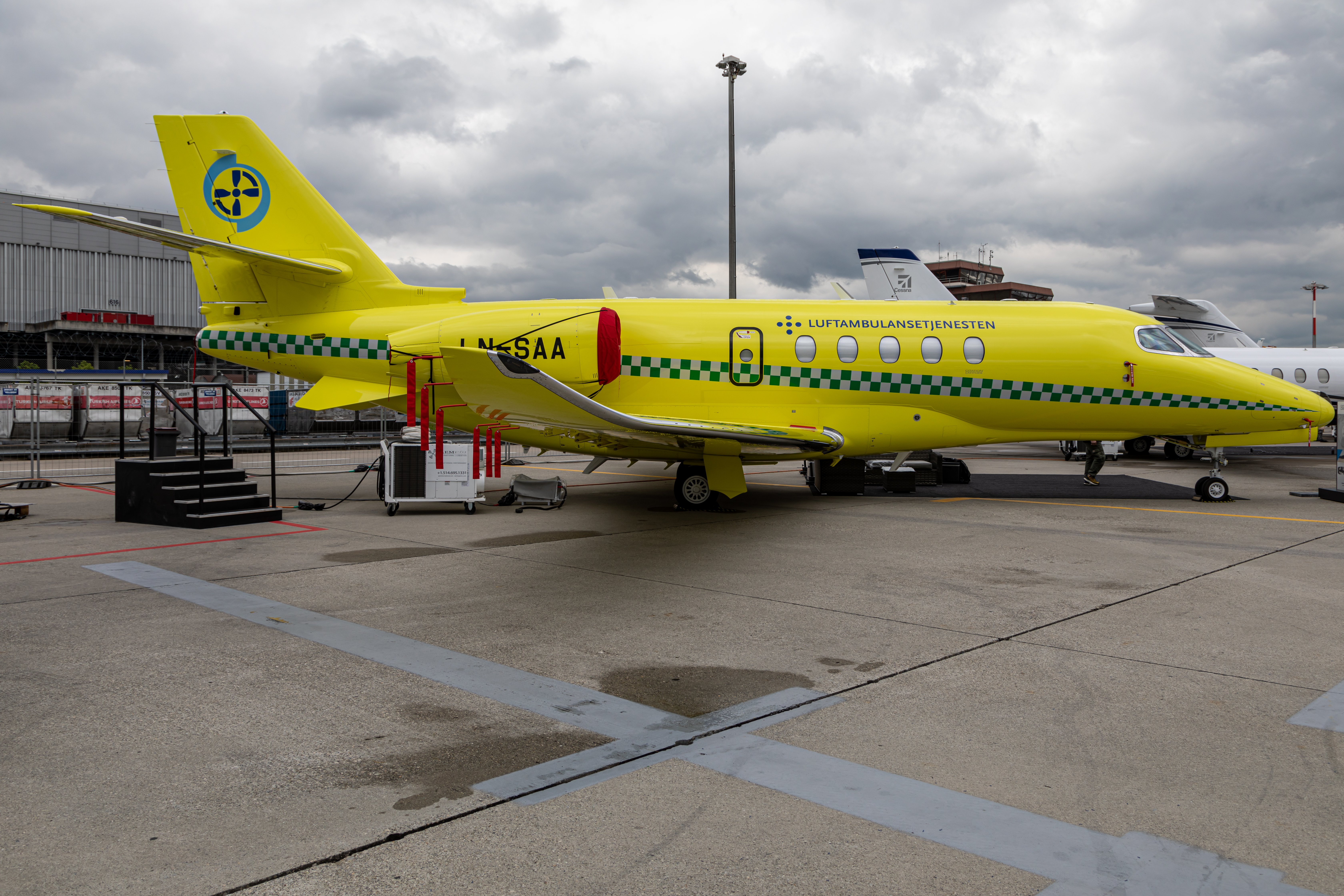 EBACE 2019, Palexpo, Switzerland